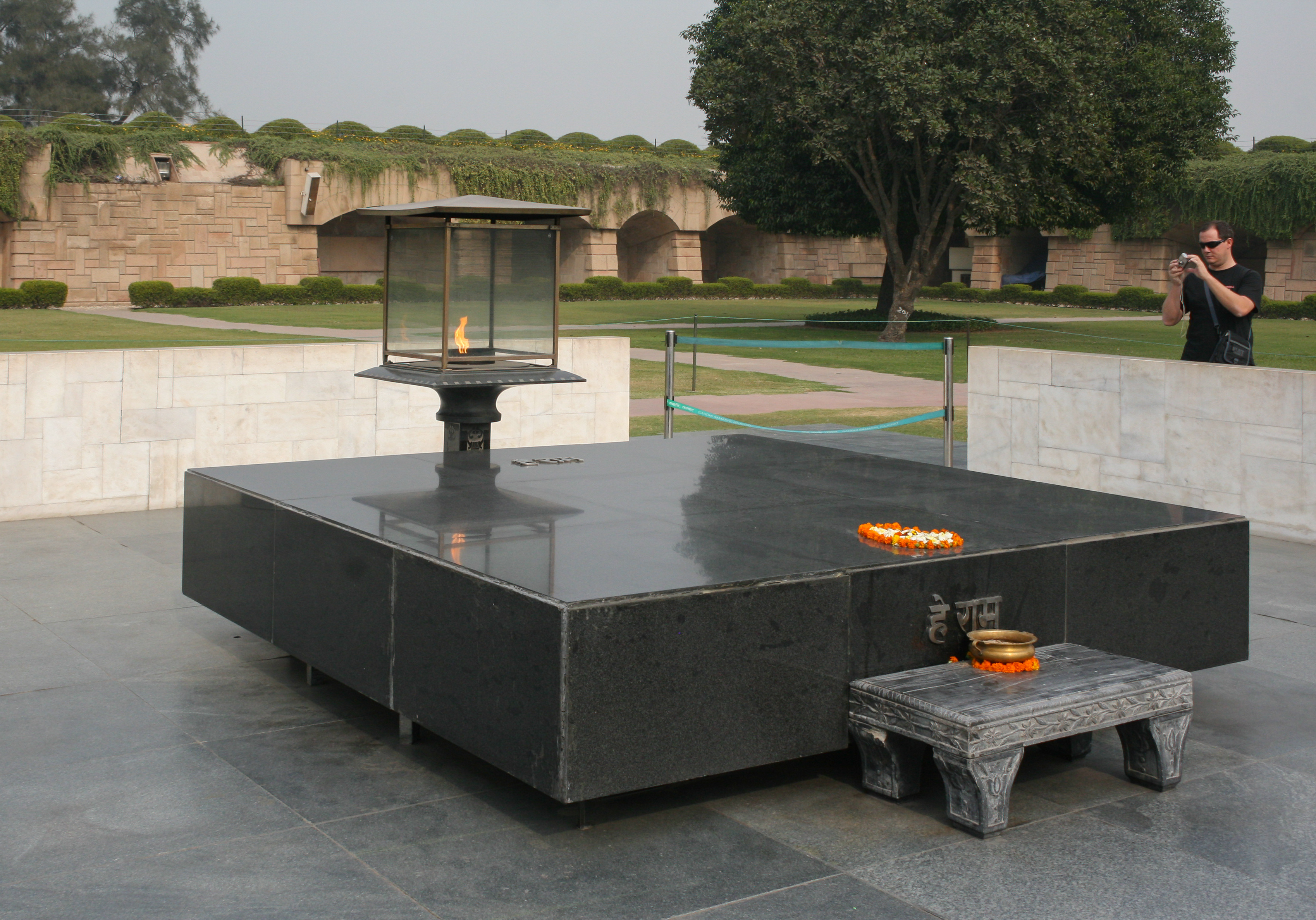 Rajghat, Delhi, India